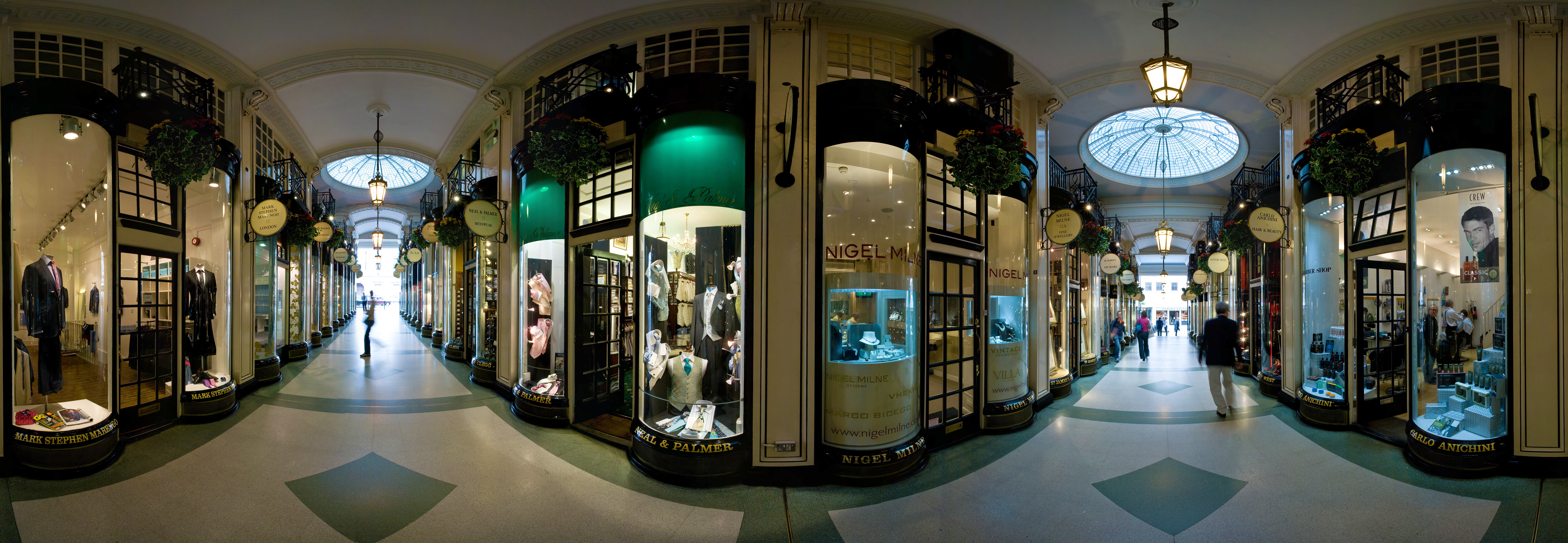 A 360 degree view of the inside of Piccadilly Arcade in London. Taken by myself with a Canon 5D and 17-40mm f/4L lens.